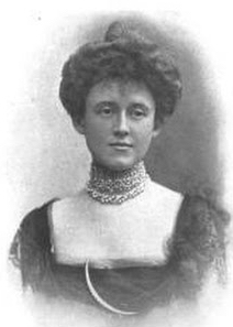 A White woman with a bouffant hairstyle, wearing a low square-necked gown, and a wide jeweled collar necklace.